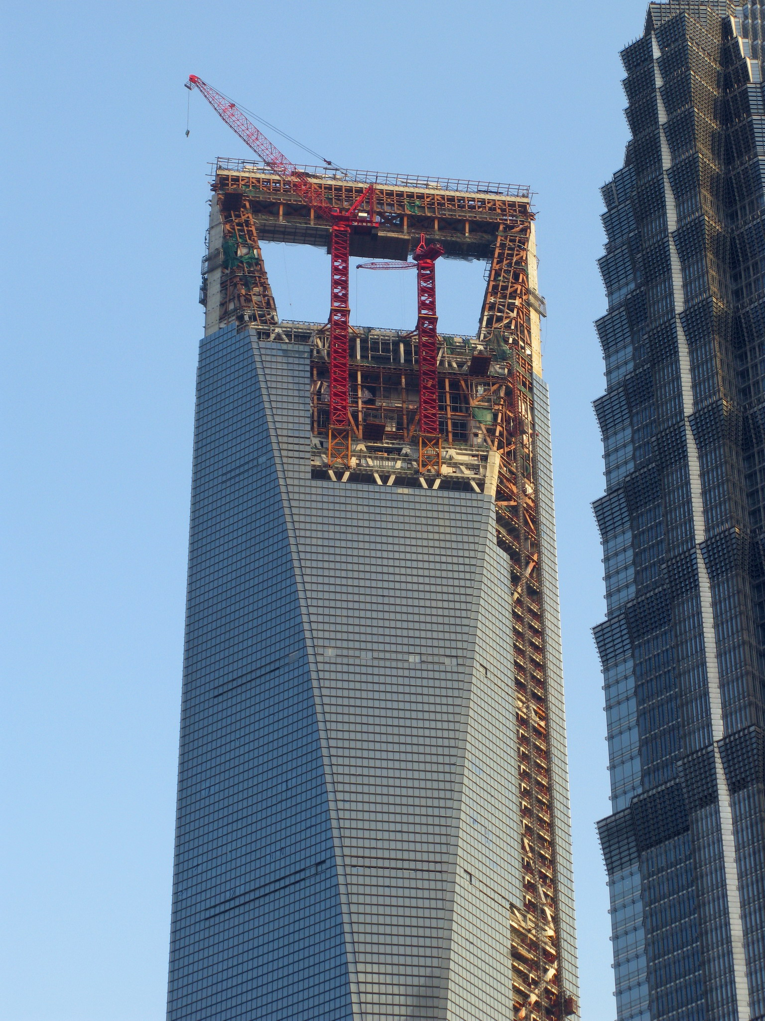 Shanghai World Financial Center under construction (architect of Shanghai World Financial Center: Kohn Pedersen Fox @ KPF / architect of Jin Mao Tower: Adrian D. Smith @ SOM)